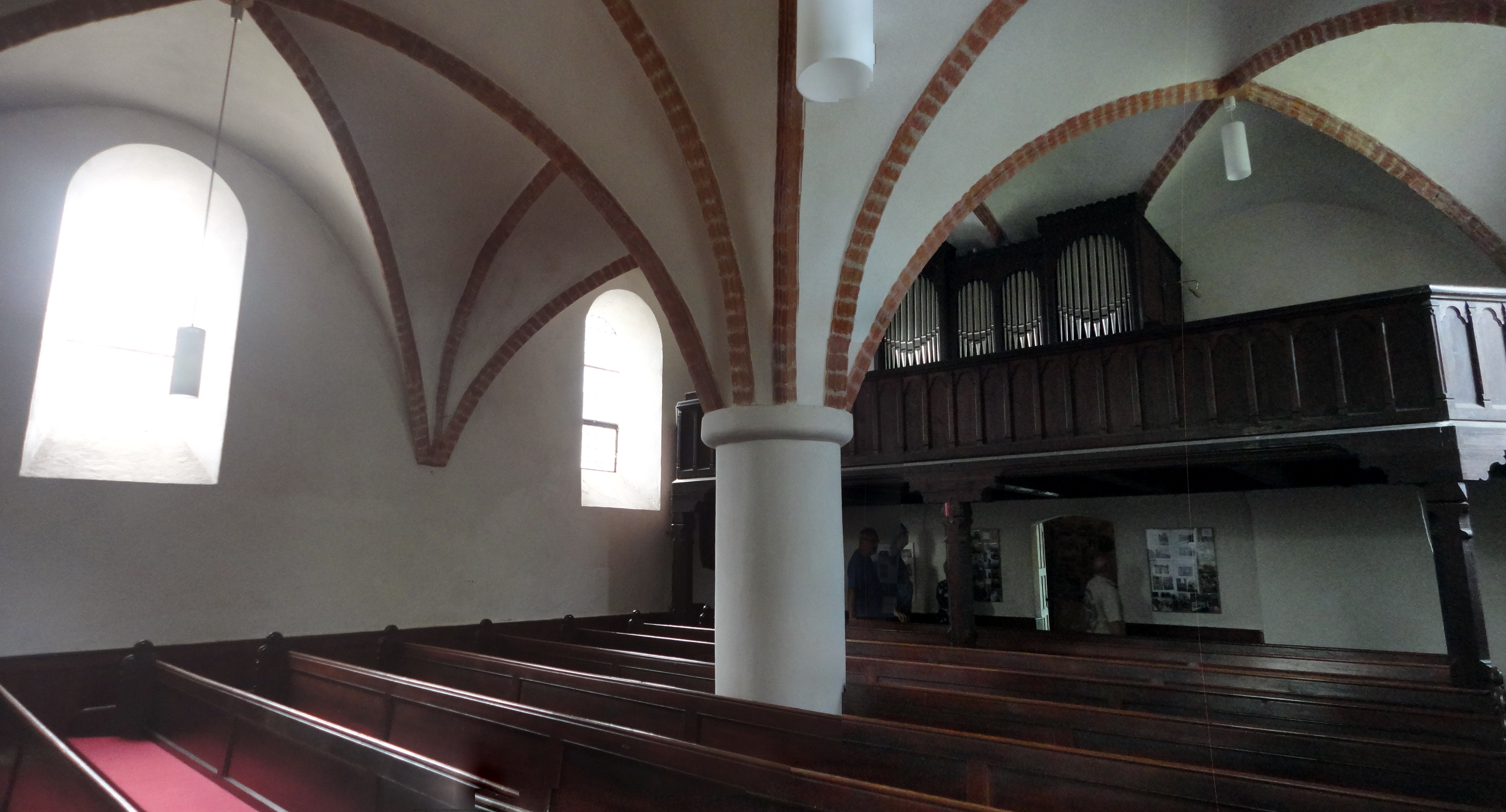 View of south-western interior (organ) of church in Börnicke, city of Bernau, Barnim district, Brandenburg state, Germany